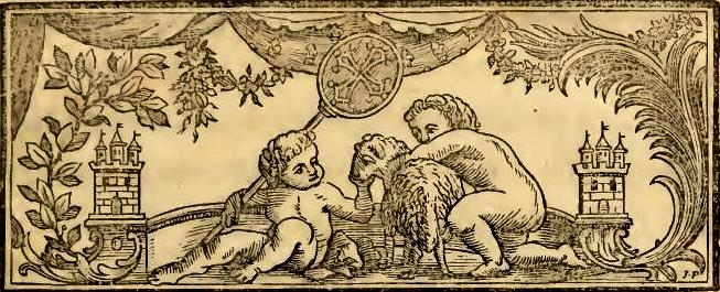 The symbols of the Occitan city of Tolosa